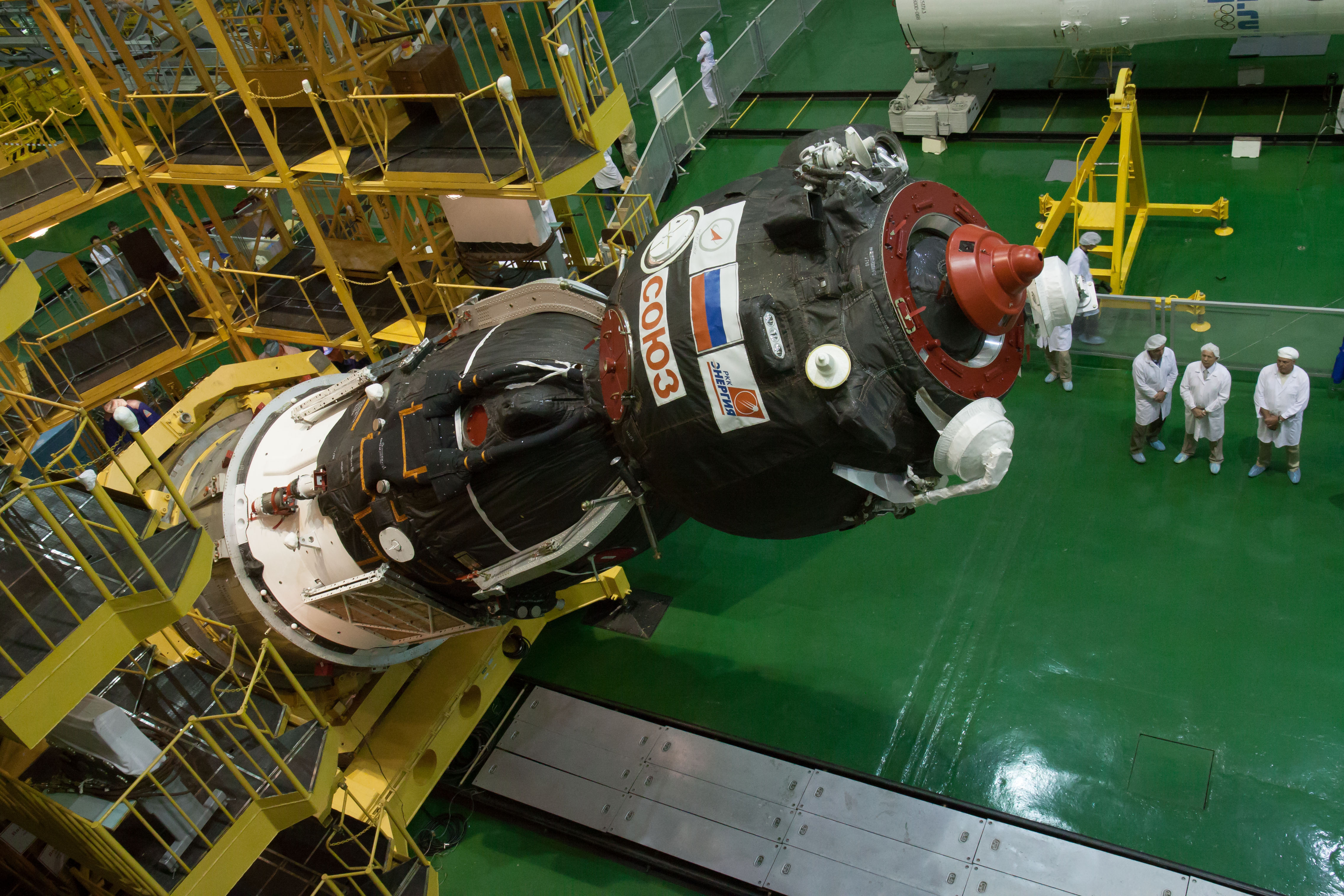 In the Integration Facility at the Baikonur Cosmodrome in Kazakhstan, the Soyuz TMA-10M spacecraft is lowered into position for its encapsulation in the third stage of a Soyuz rocket Sept. 19. The Soyuz spacecraft will move to its launch pad Sept. 23 for final preparations for launch Sept. 26, Kazakh time, to carry Expedition 37/38 Flight Engineer Michael Hopkins of NASA, Soyuz Commander Oleg Kotov and Flight Engineer Sergey Ryazanskiy, both with Russia's Federal Space Agency, into orbit for the start of a five and a half month mission on the International Space Station.